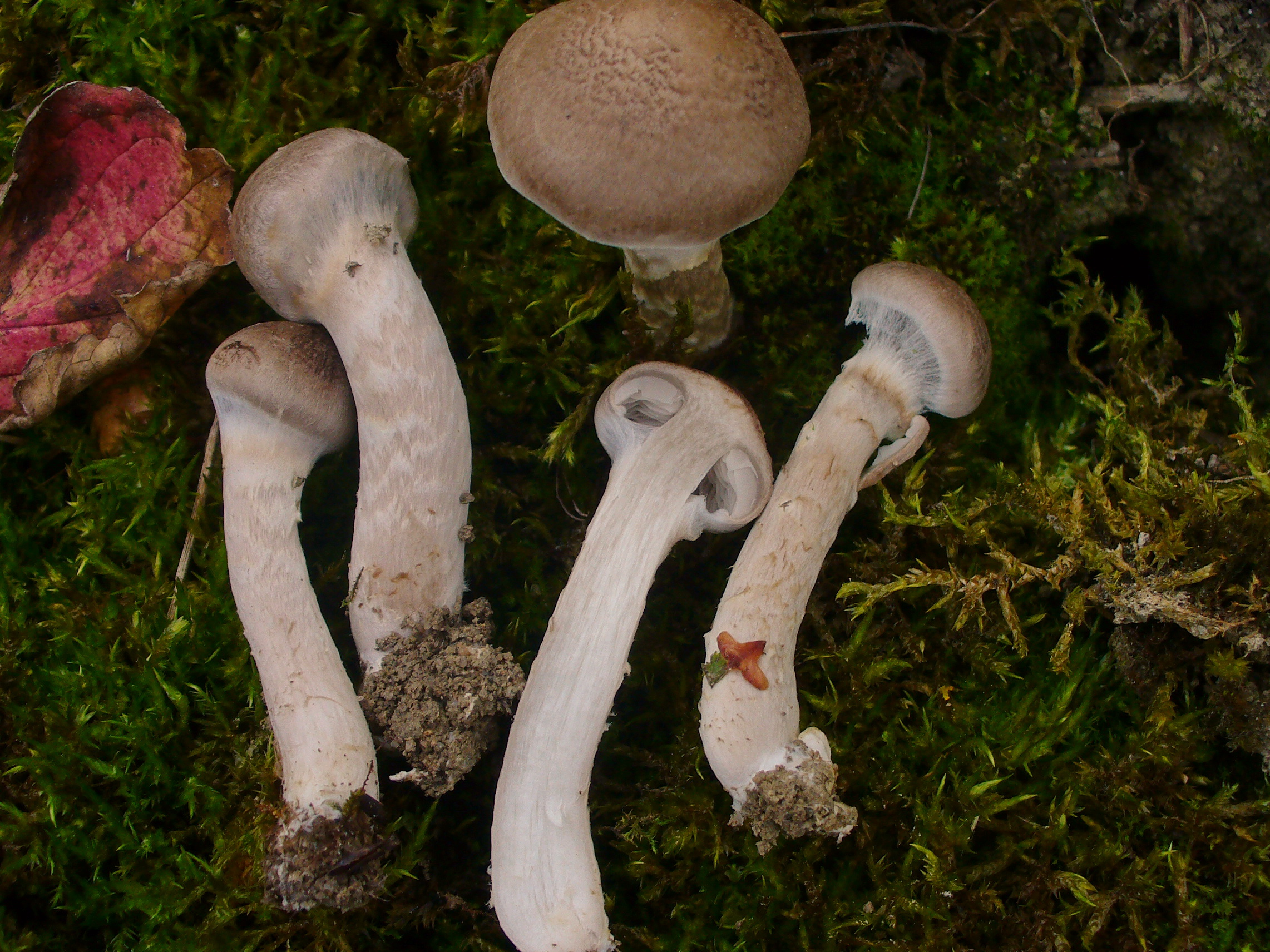 Tricholoma cingulatum (Almfelt) Jacobasch Image location: Mergelgrube Höver Recognized by sight For more information about this, see the observation page at Mushroom Observer.